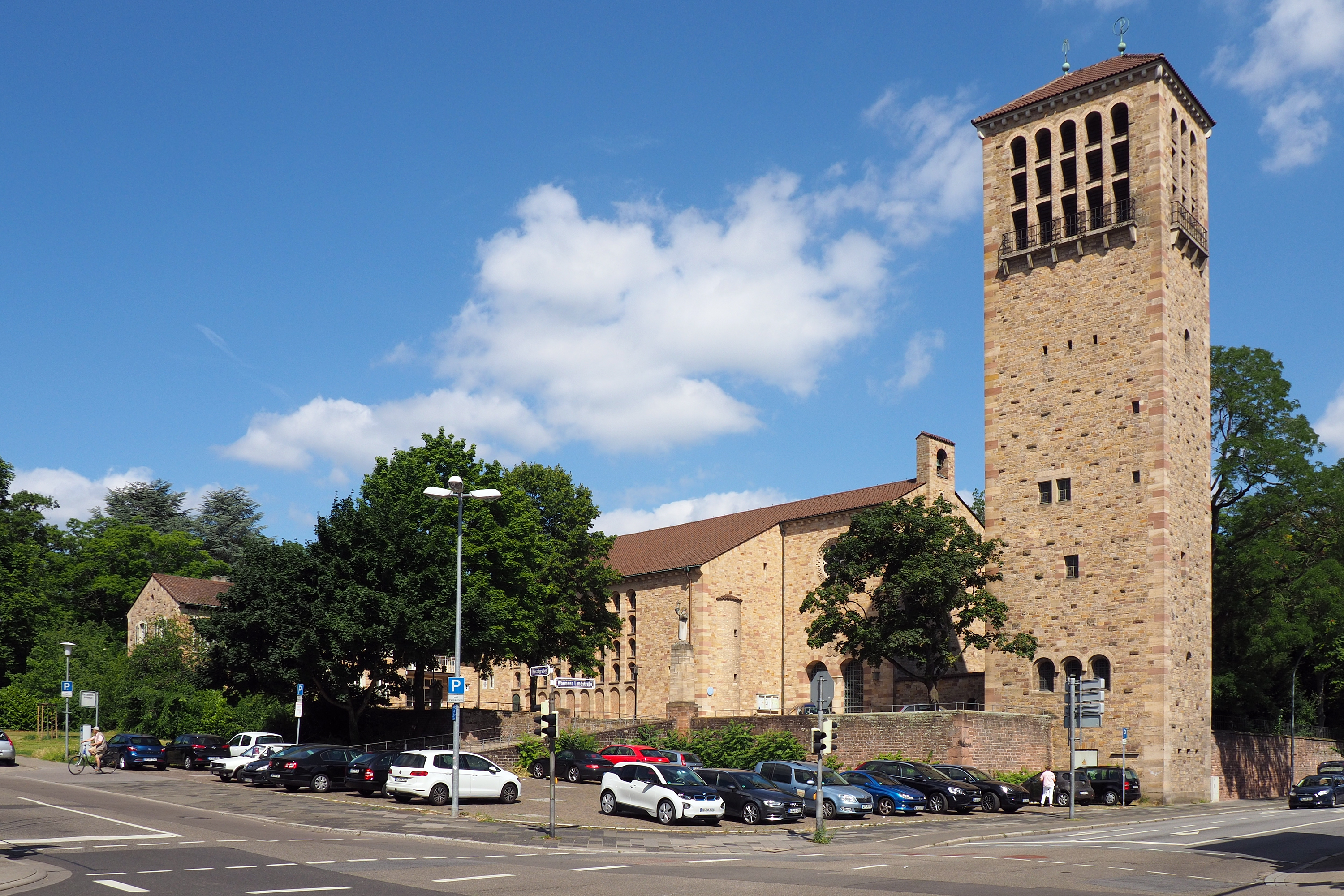 Bernhardskirche, Speyer